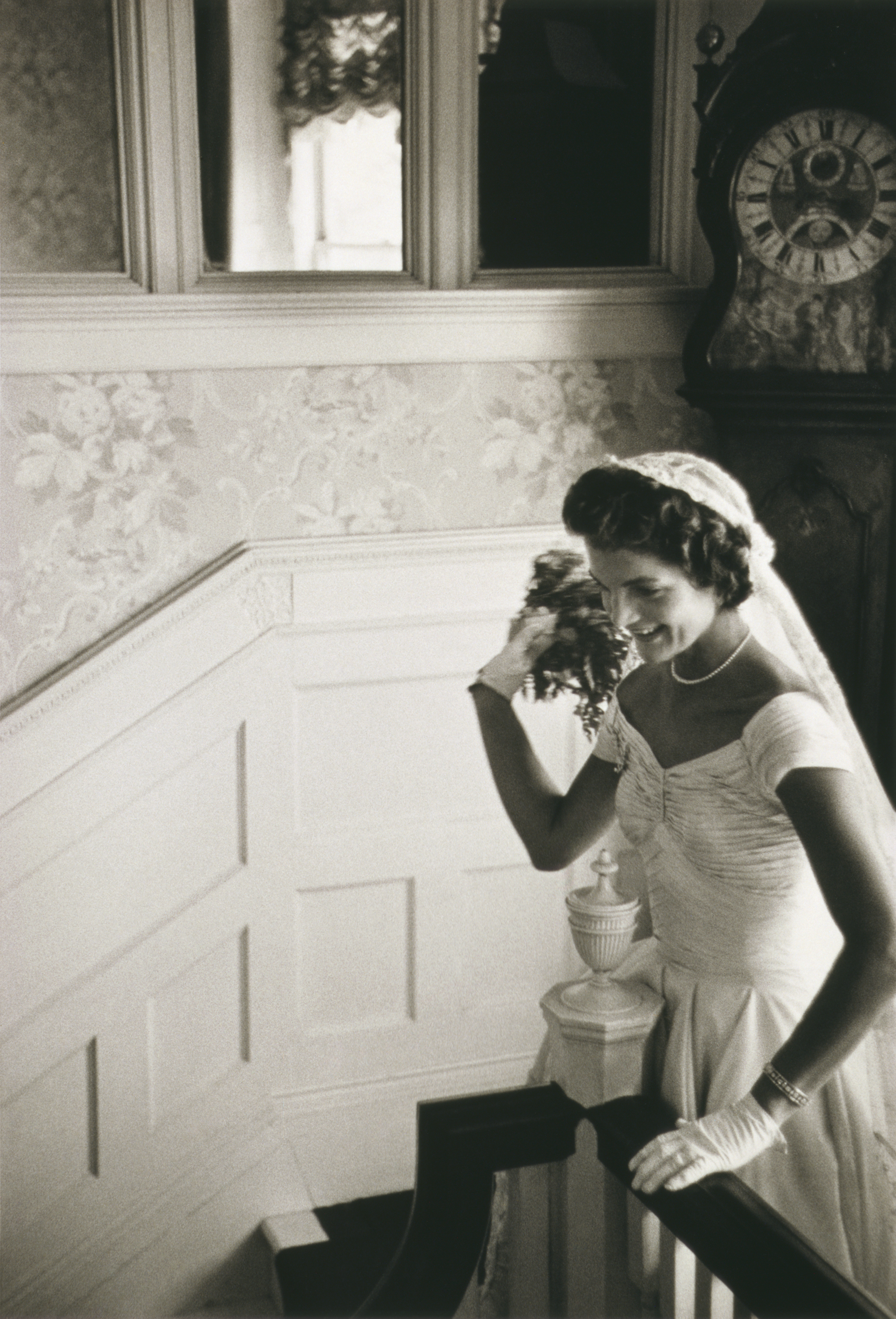 Jacqueline Kennedy throwing the bouquet at her first wedding.